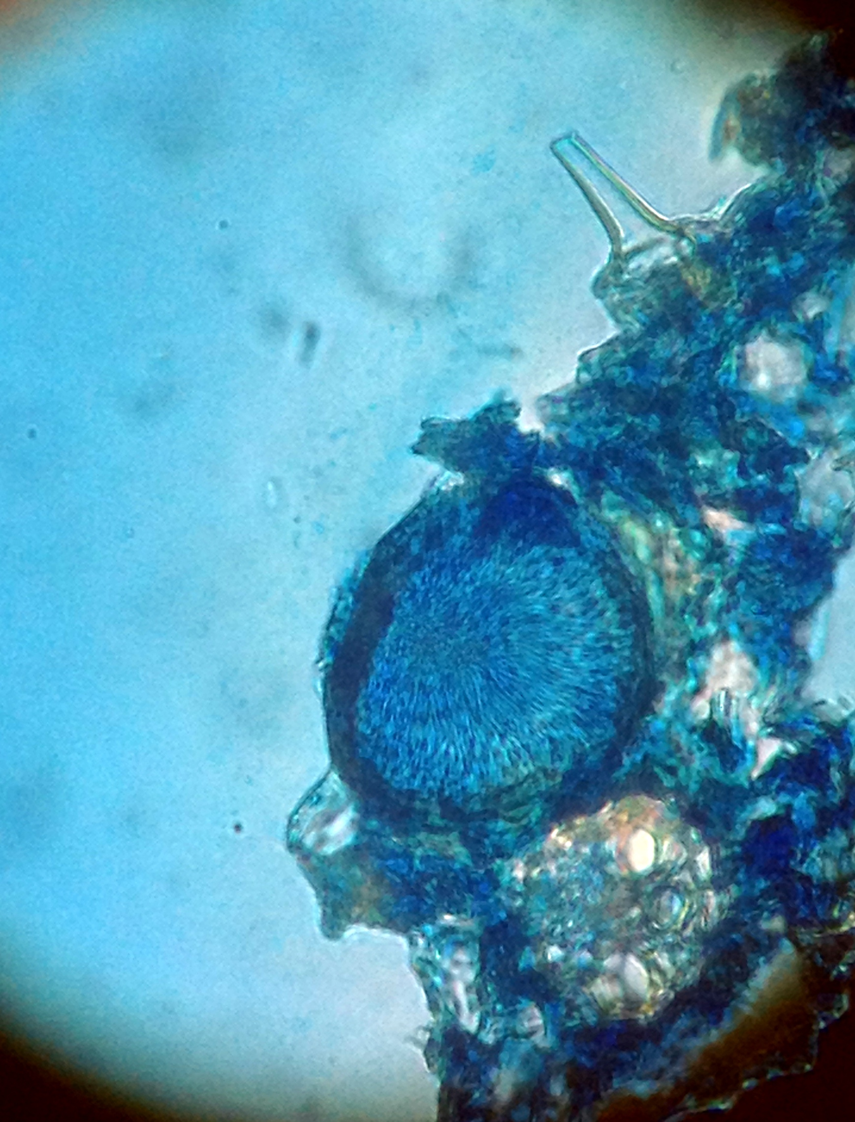 Pyknidium of Mycosphaerella graminicola within the leaf tissue of Wheat. The Pyknidium is still closed and has not yet released the Conidia.